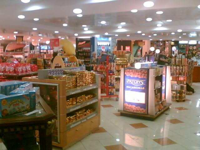 Aldeasa shopping Duty Free at Queen Alia International Airport - Chocolates & Biscuits section.